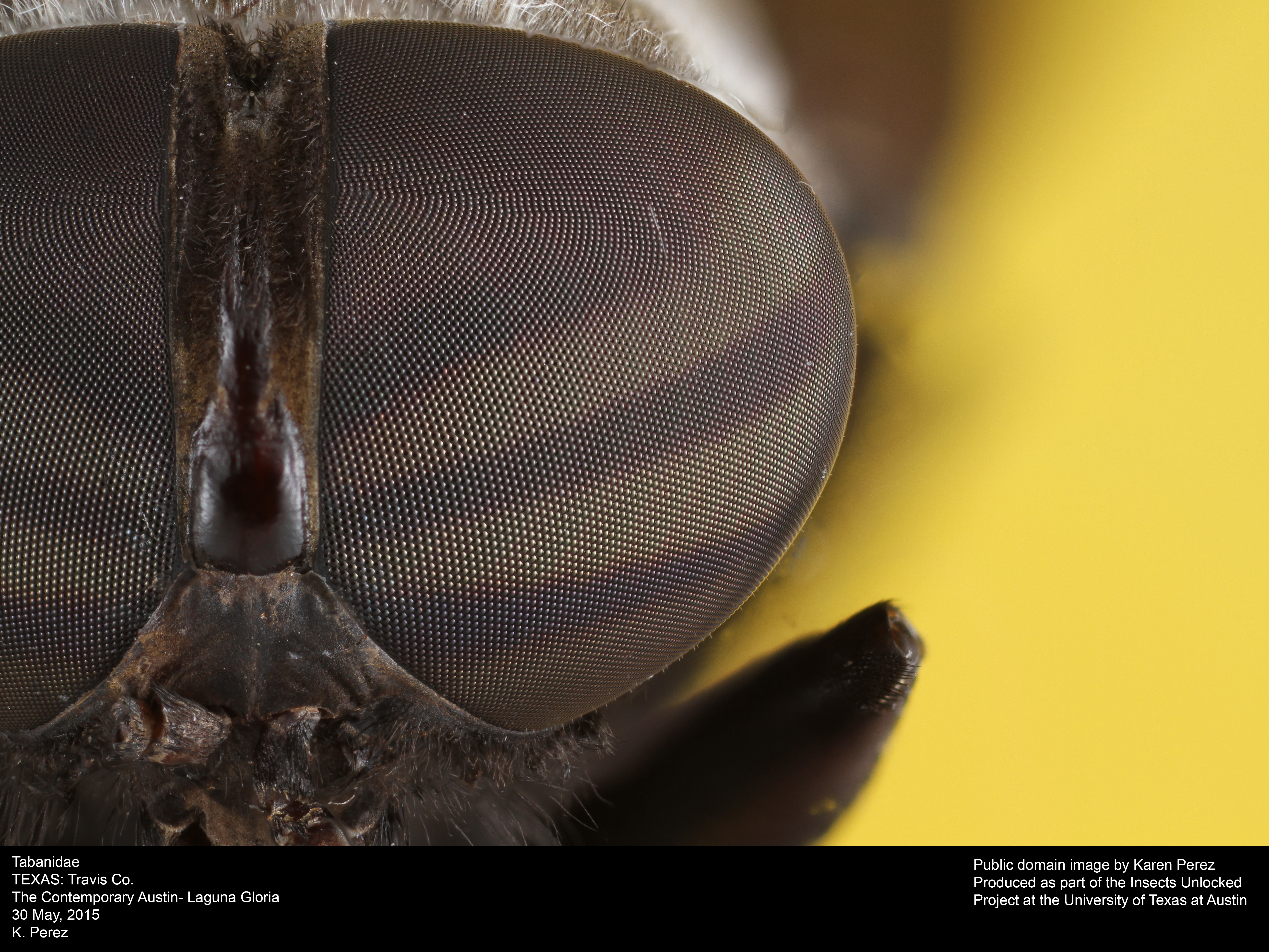 Public domain image by Karen Perez produced as part of the Insects Unlocked project at The University of Texas at Austin